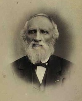 Laurits Albert Winstrup (1815-1889), Danish architect and civil servant